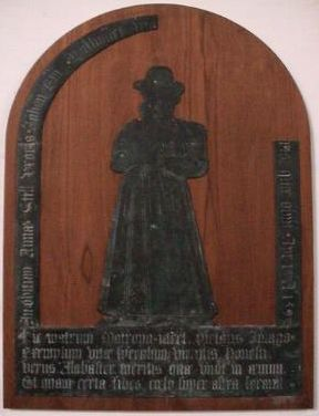 The monumental brass of Ann Alabaster (died 1592) at Saint Mary's Church, Hadleigh, Suffolk, England, UK. She was the first wife of John Still (c. 1543 – 26 February 1607/8), the Bishop of Bath and Wells; and the daughter of Thomas Alabaster (died 1592), a cloth merchant from Hadleigh.